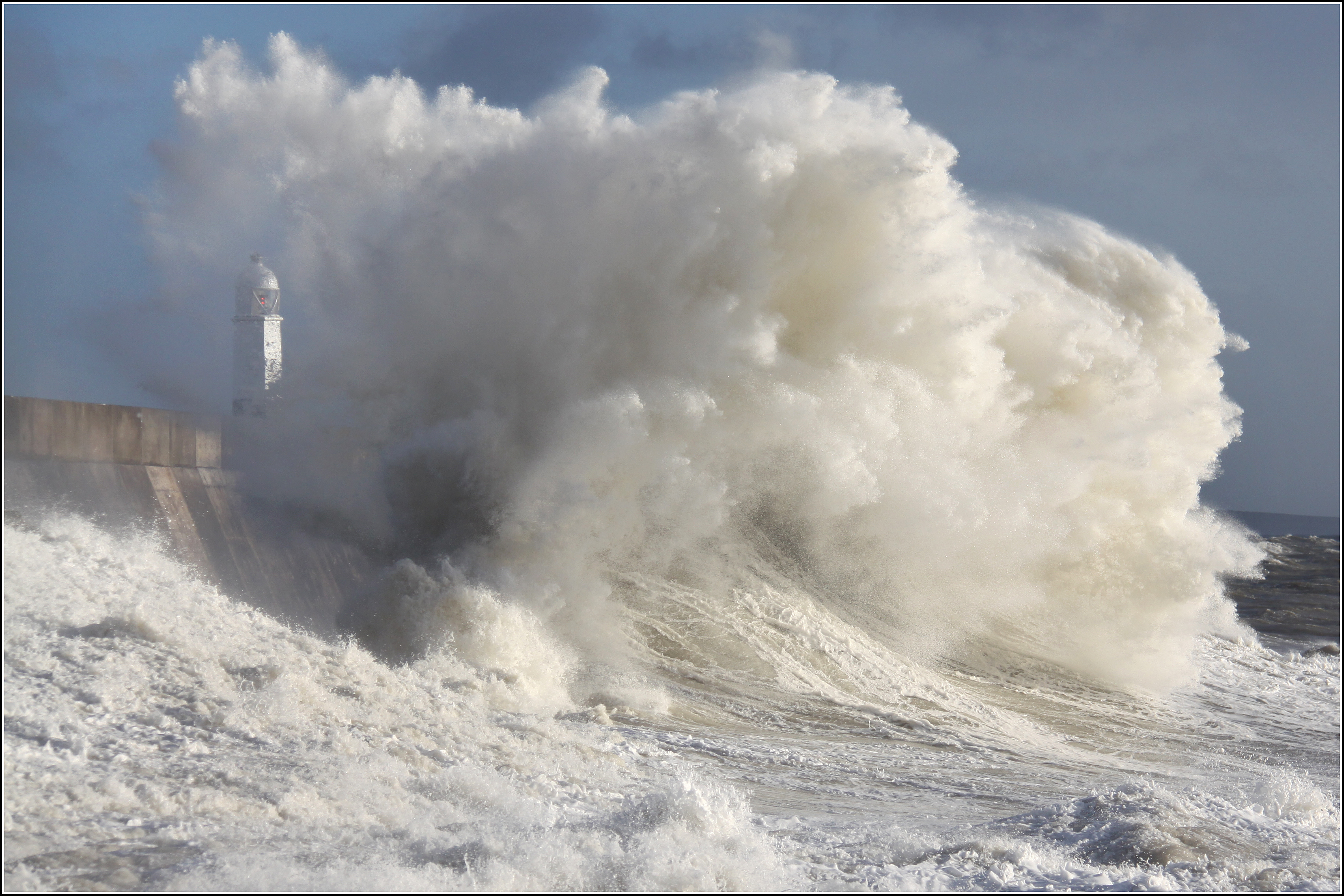 Porthcawl wave 27 December 2013